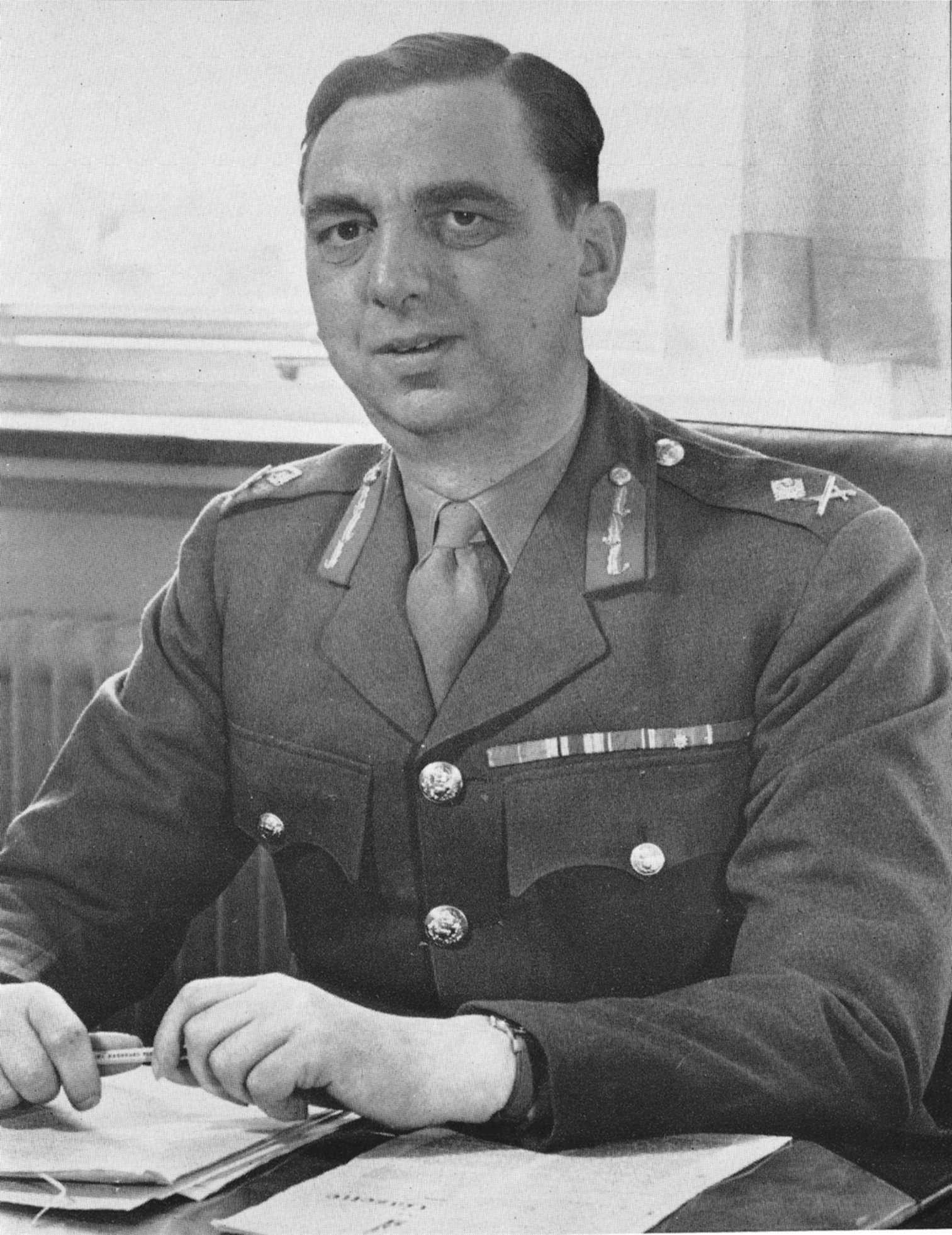 Kenneth Strong, Assistant Chief of Staff (G-2) at Supreme Headquarters Allied Expeditionary Force (SHAEF)